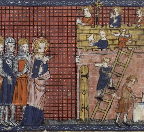 Saint Valentine of Terni and his disciples. Codex: Français 185, Fol. 210. Vies de saints, France, Paris, 14th century